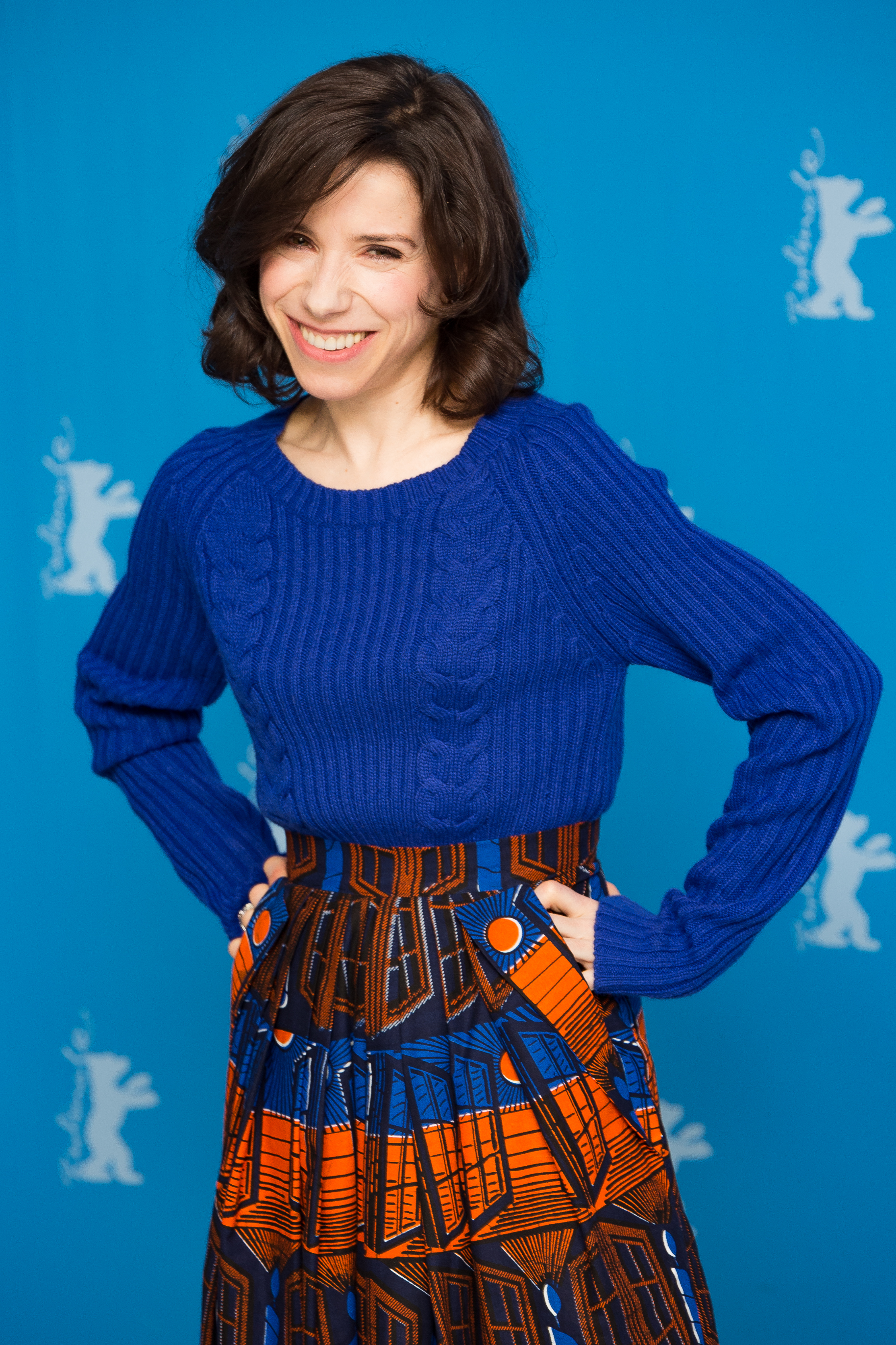 The actress Sally Hawkins at the presentation of the movie Maudie at the Berlinale 2017